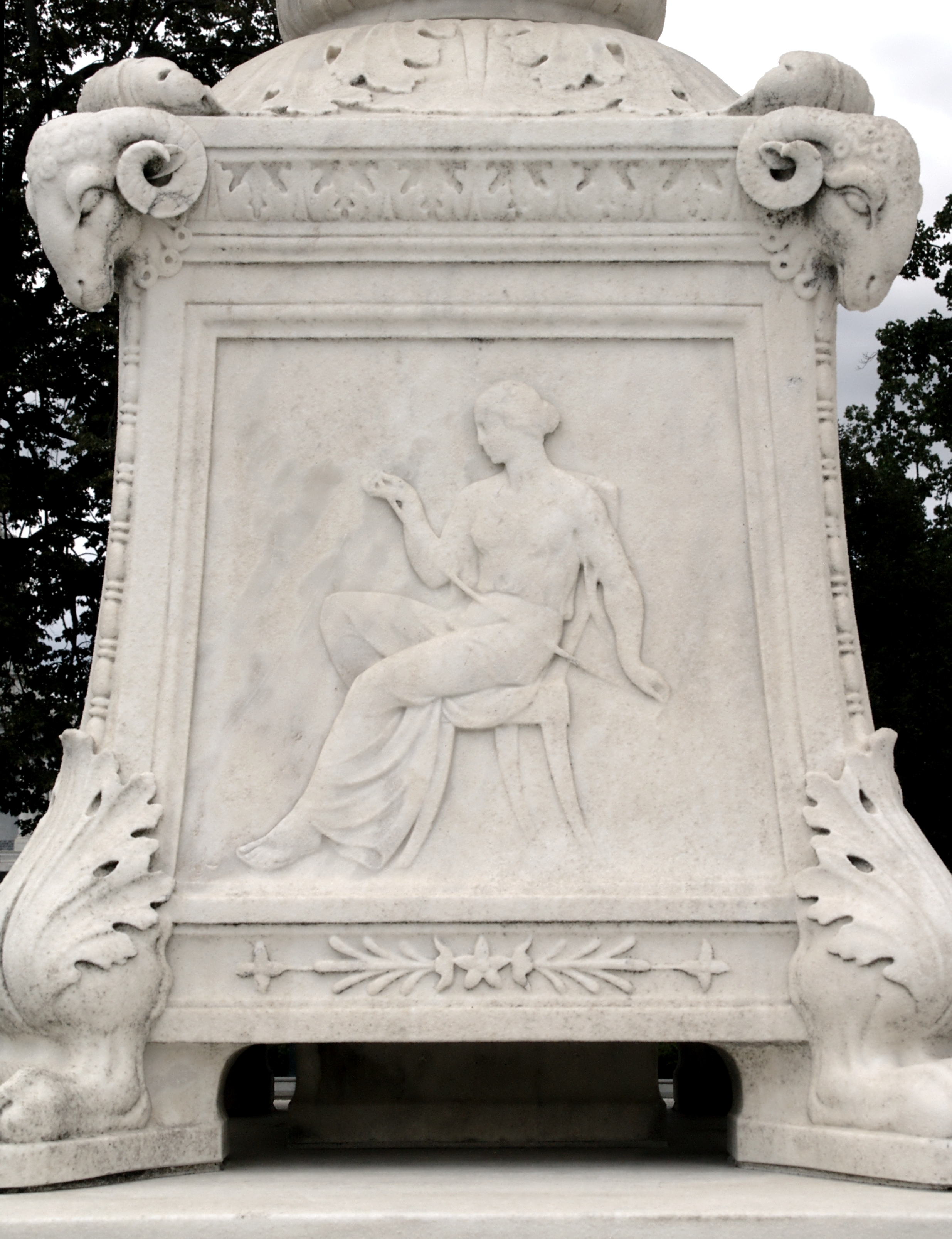 Bas relief of Lachesis measuring the thread of human life. This relief appears on the base of a lampstand in front of the Supreme Court of the United States.